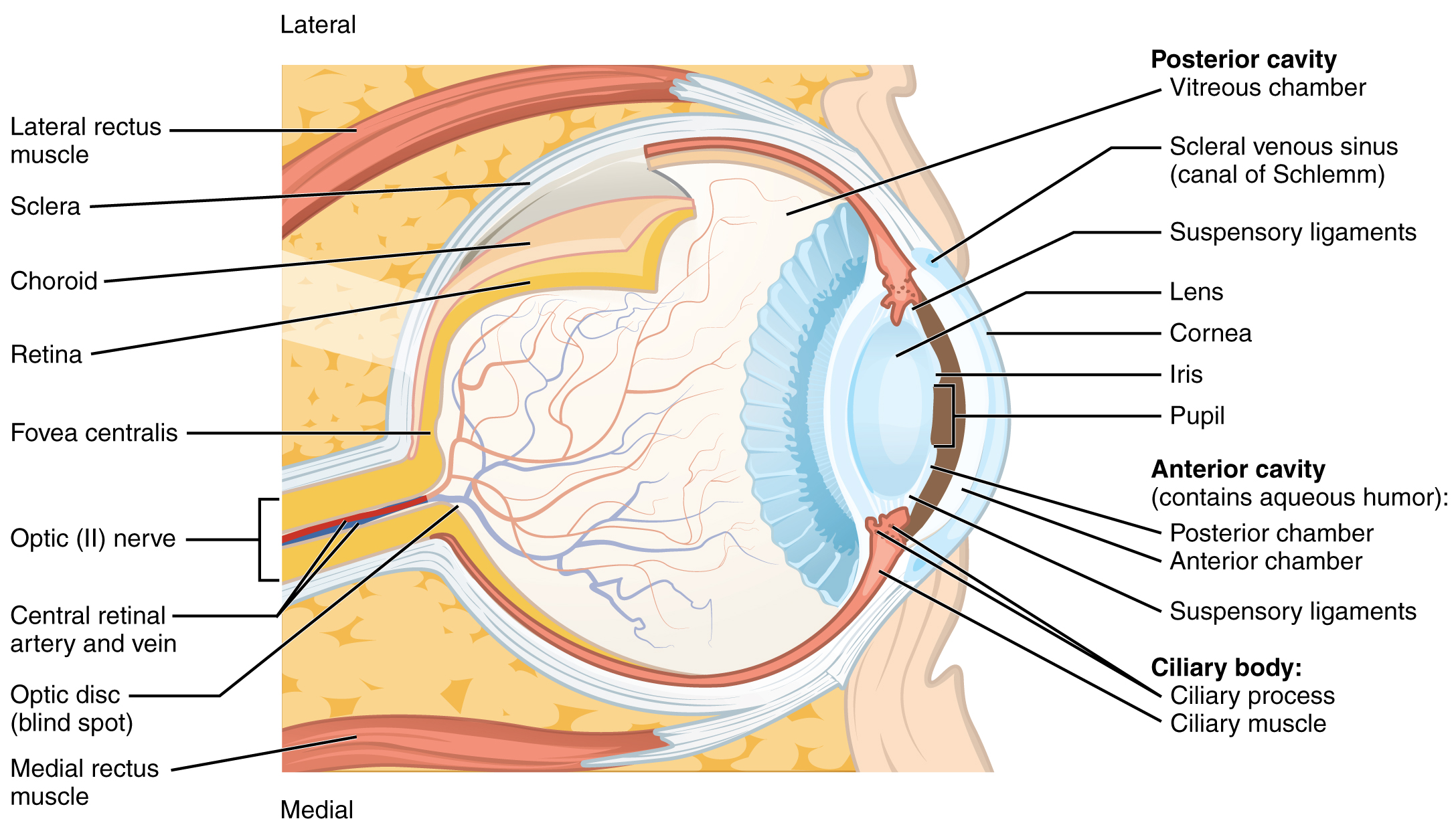 Illustration from Anatomy & Physiology, Connexions Web site. Jun 19, 2013.